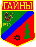 Coat of Arms of Gainy, Perm oblast, USSR, 1979